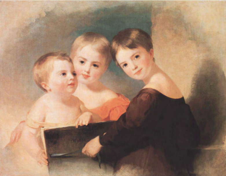 Thomas Sully, The Vanderkemp Children, oil on canvas, 1832. National Gallery of Art, Washington D.C. Accession Number 1966.11.1. NGA Images Open Access policy.